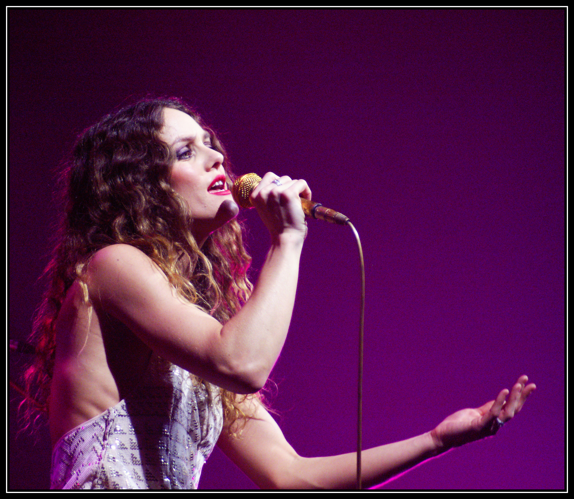 Vanessa Paradis live at Châteauroux (France).Vanessa Paradis @ Tarmac (Châteauroux)